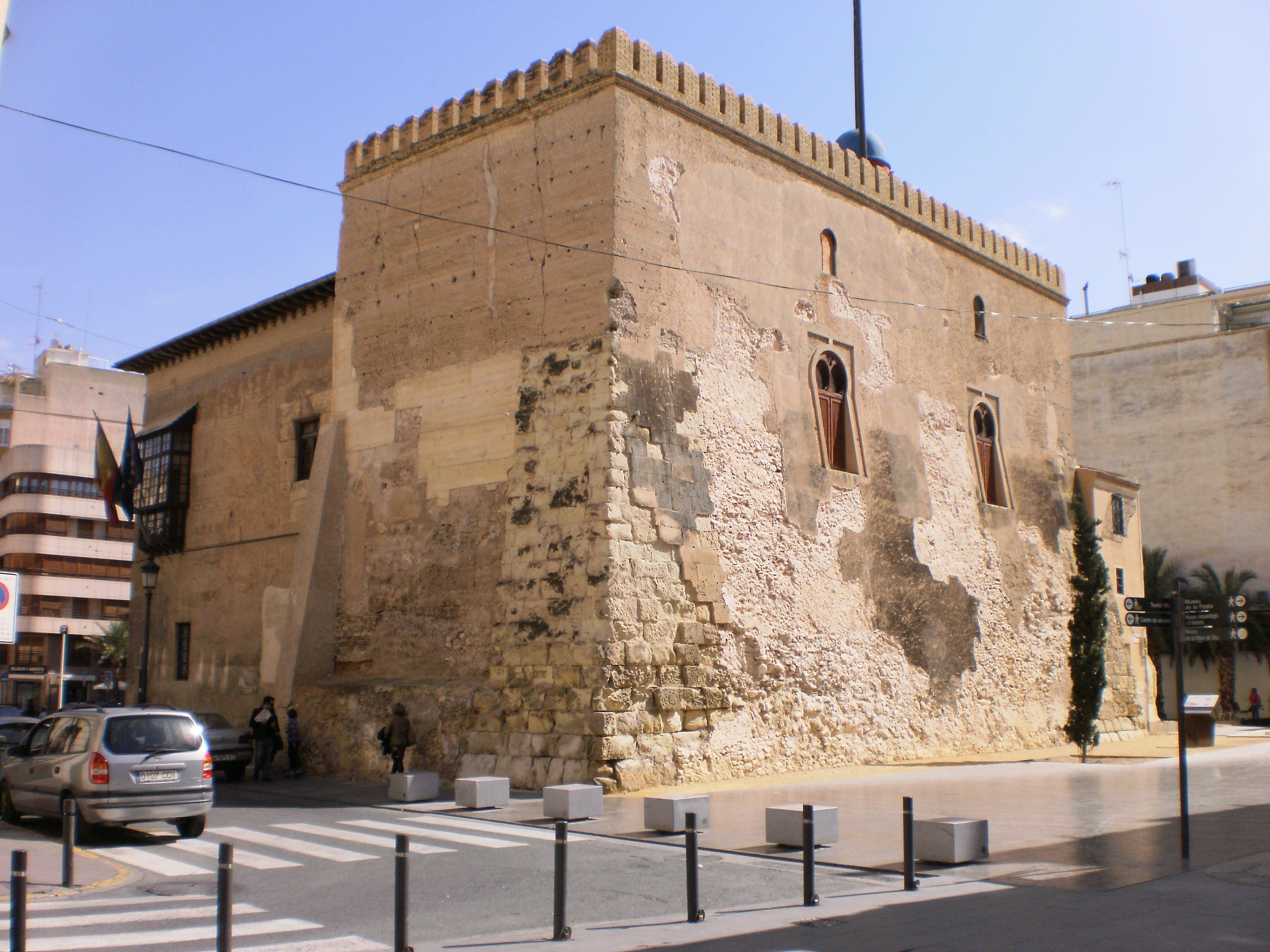 Calahorra Tower, Elx